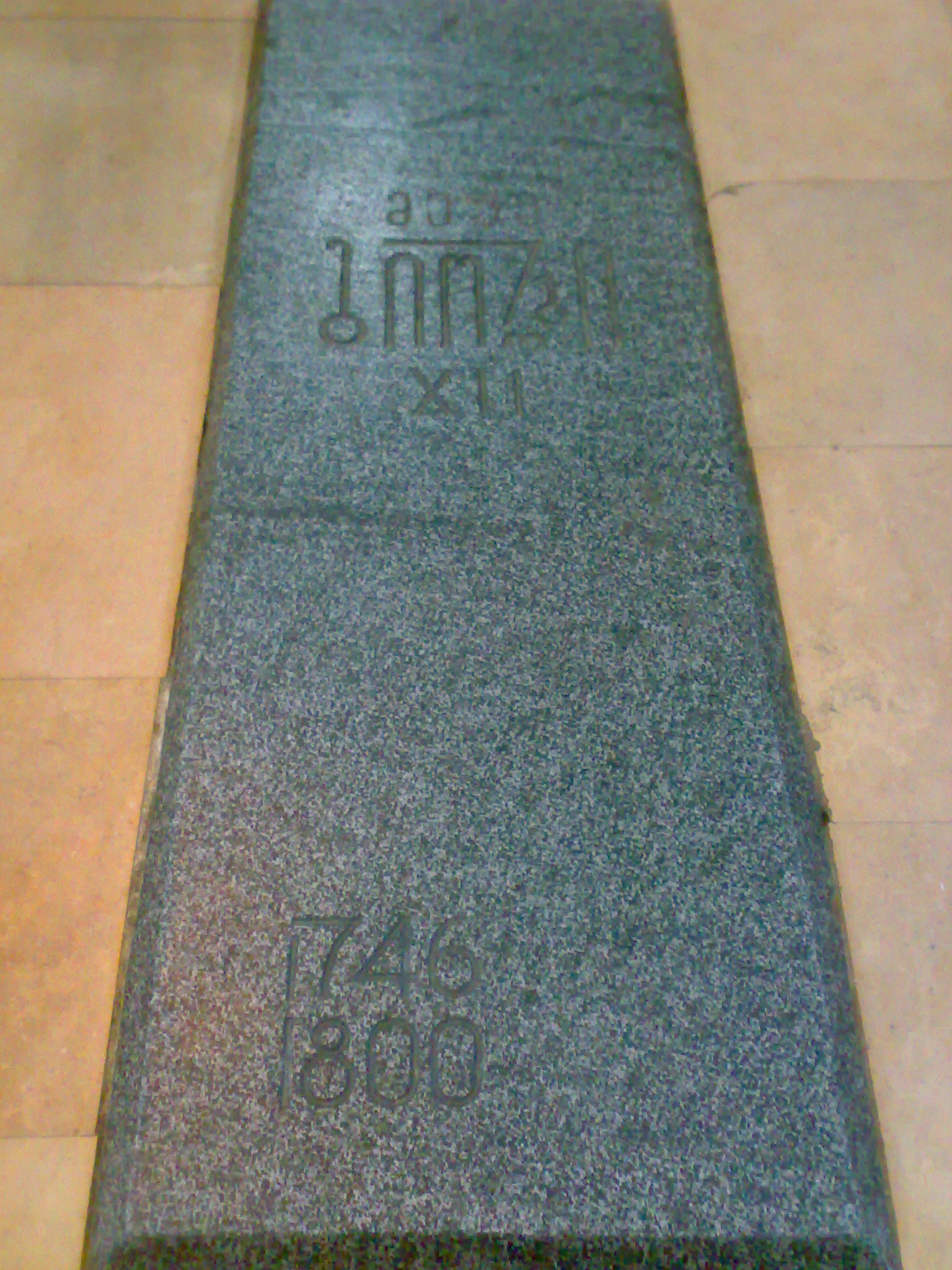 The tomb of George XII